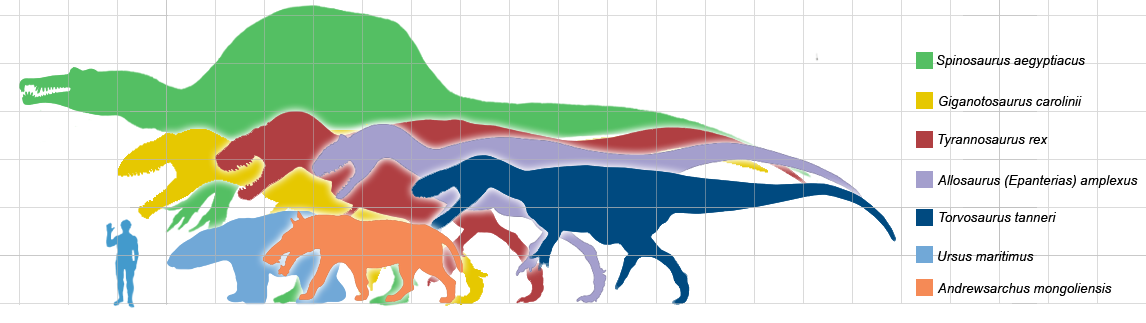 Size comparison of several giant terrestrial predators from various periods of geologic time. Each grid segment = 1 square meter. Scheme comprises Spinosaurus, Giganotosaurus, Tyrannosaurus, Allosaurus, Torvosaurus, Polar bear,Andrewsarchus, and Human.